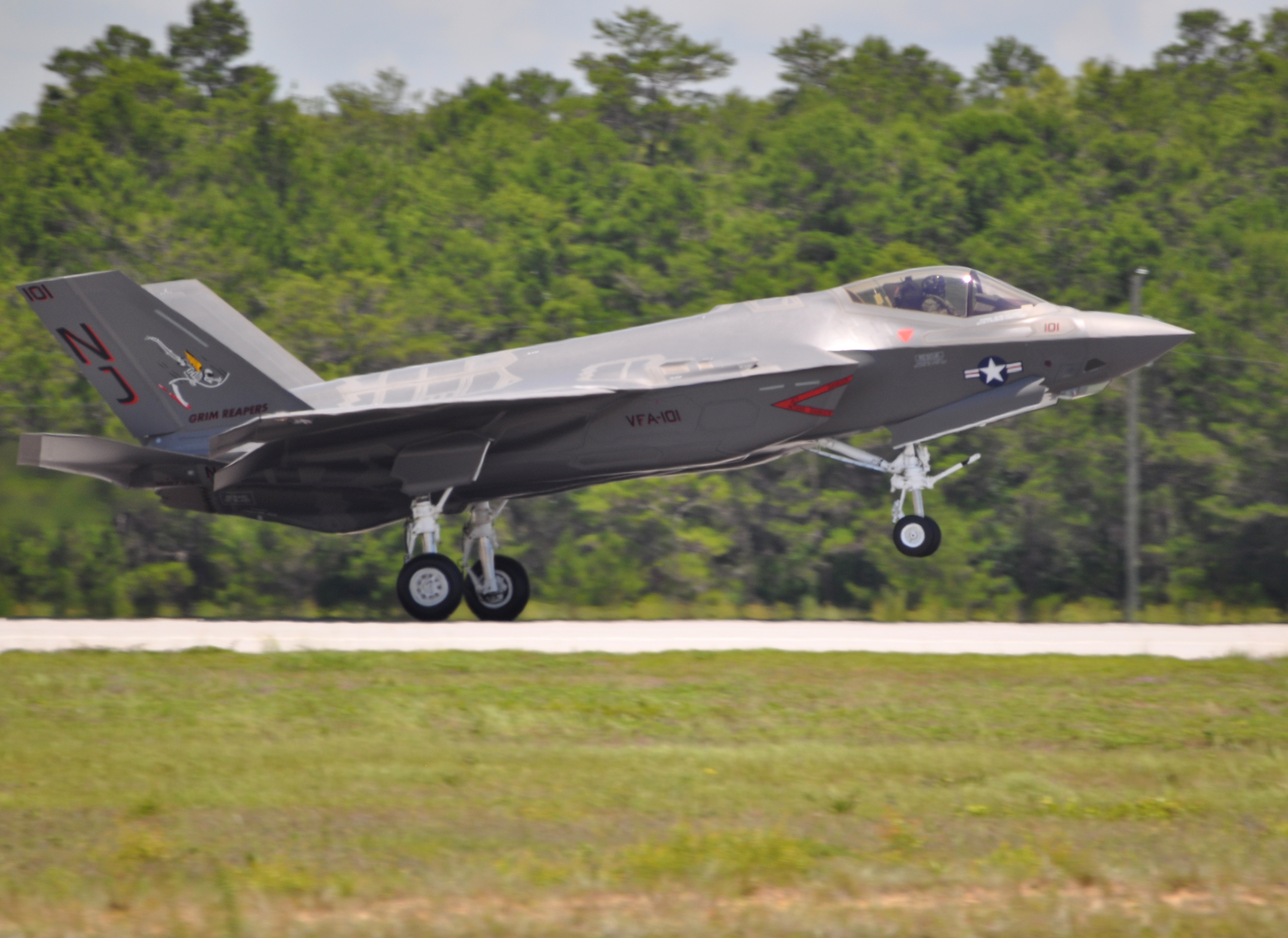 U.S. Navy Lt. Cmdr. Christopher Tabert, Lockheed Martin F-35C Lightning II instructor pilot of Strike Fighter Squadron VFA-101 "Grim Reapers" lands at Eglin Air Force Base's 33d Fighter Wing after a two hour flight from Ft. Worth, Texas (USA). VFA-101 received the Navy's first F-35C carrier variant aircraft from Lockheed Martin at the squadron's home at Eglin Air Force Base, Fla. VFA-101, based at Eglin Air Force Base, serves as the F-35C Fleet Replacement Squadron, training both aircrew and maintenance personnel to fly and repair the F-35C.